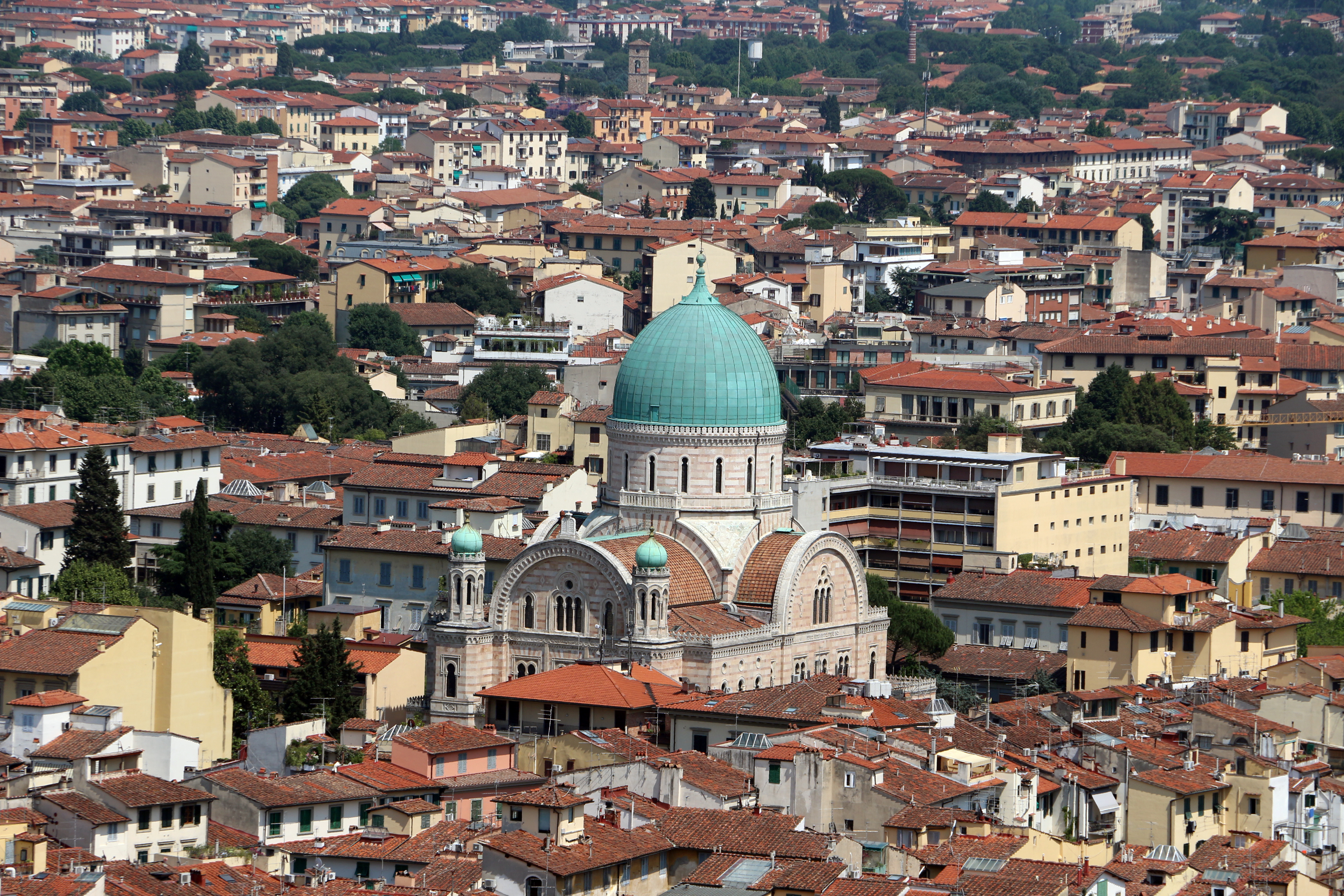 Santa Maria del Fiore (Florence) - Dome - View from